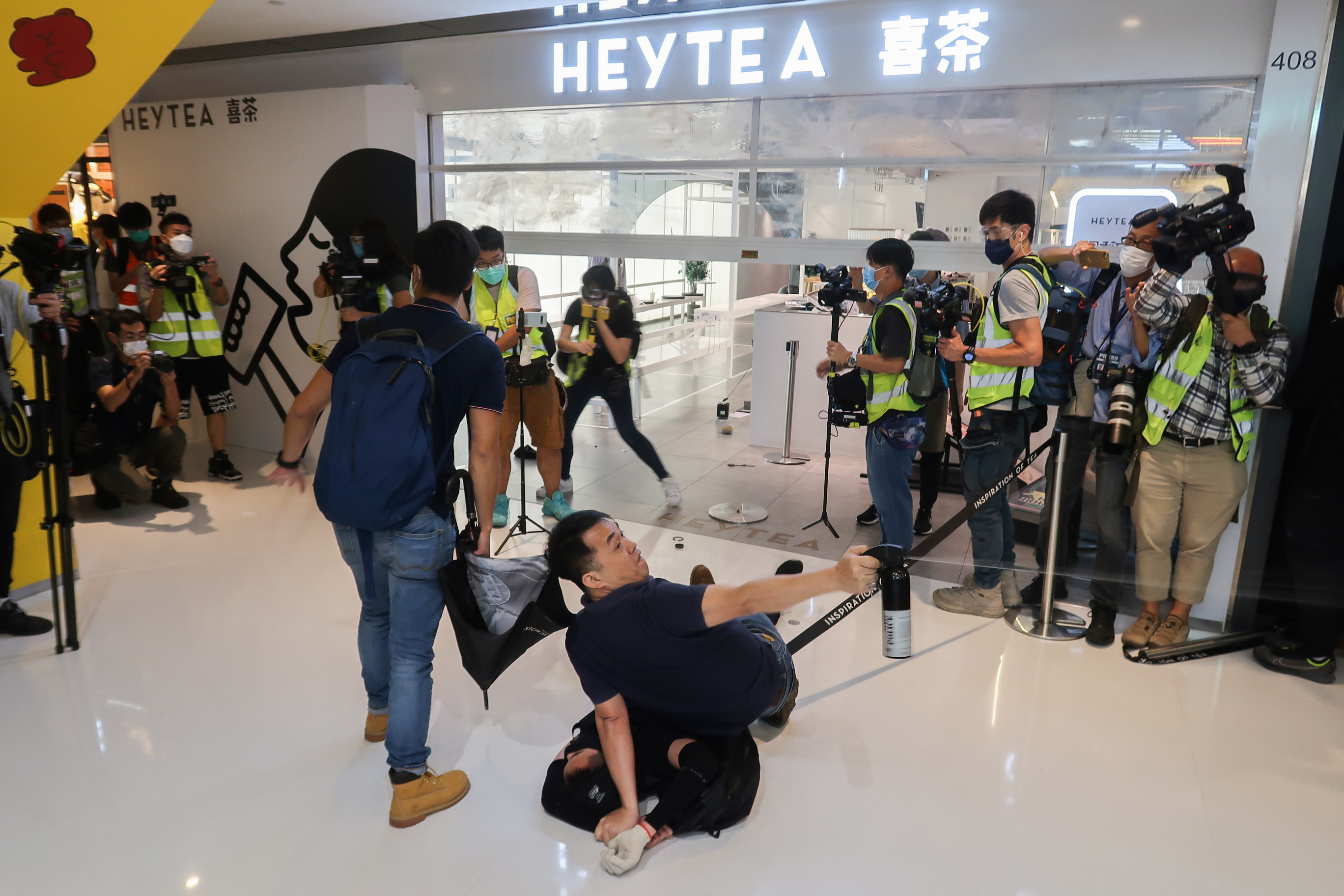 Police arrest people outside NTP Hey TEA